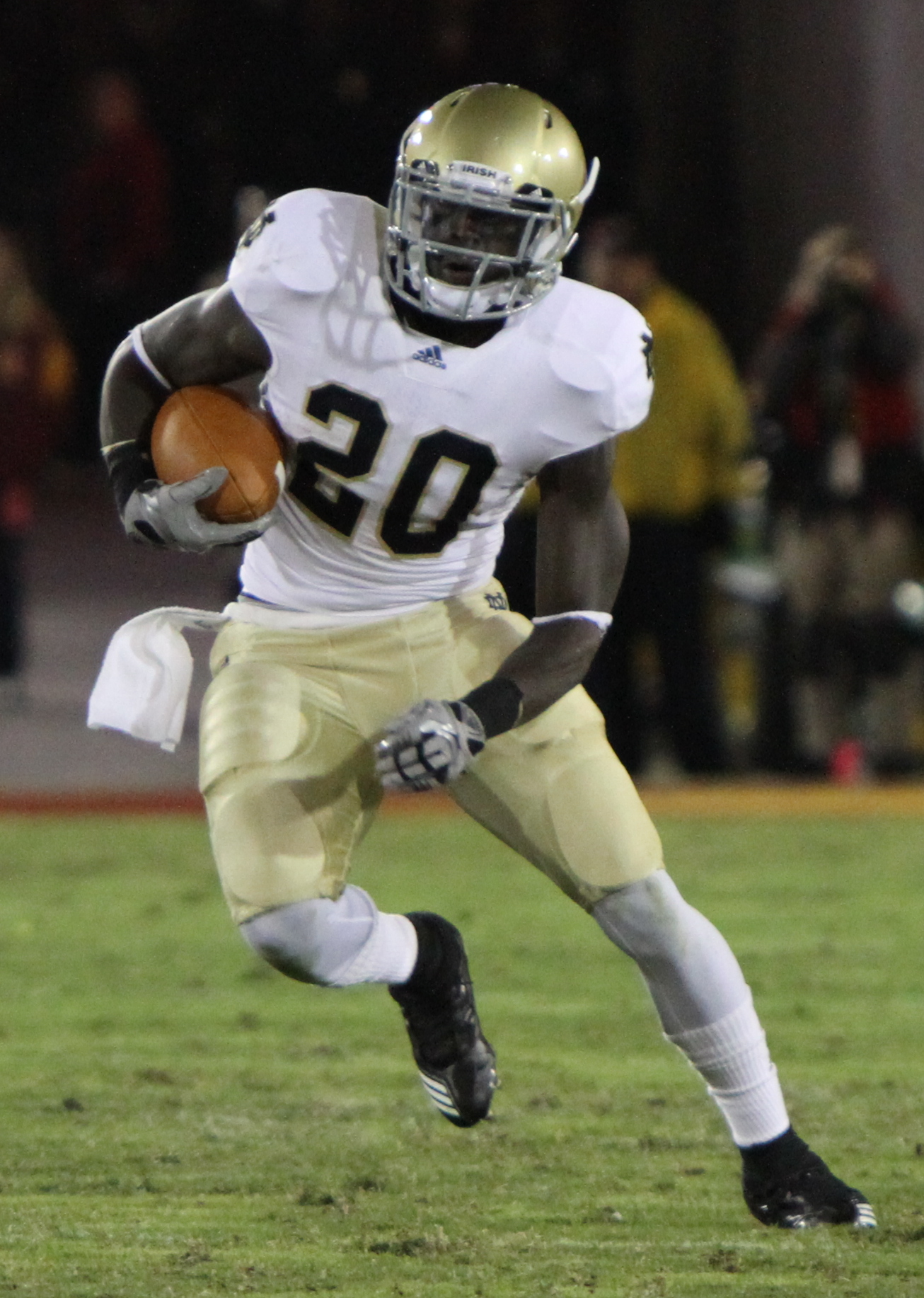 The Notre Dame Fighting Irish defeated the USC Trojans 20-16 at the Los Angeles Memorial Coliseum Saturday November 27, 2010. (Shotgun Spratling/Neon Tommy)